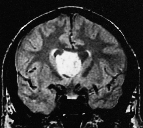 The uncommon symptomatic subependymoma, such as this example seen on a proton density magnetic resonance image, is a discrete intraventricular mass near the foramen of Monro. (Courtesy of Dr. Stephen A. Goscin, Hollywood, FL.)